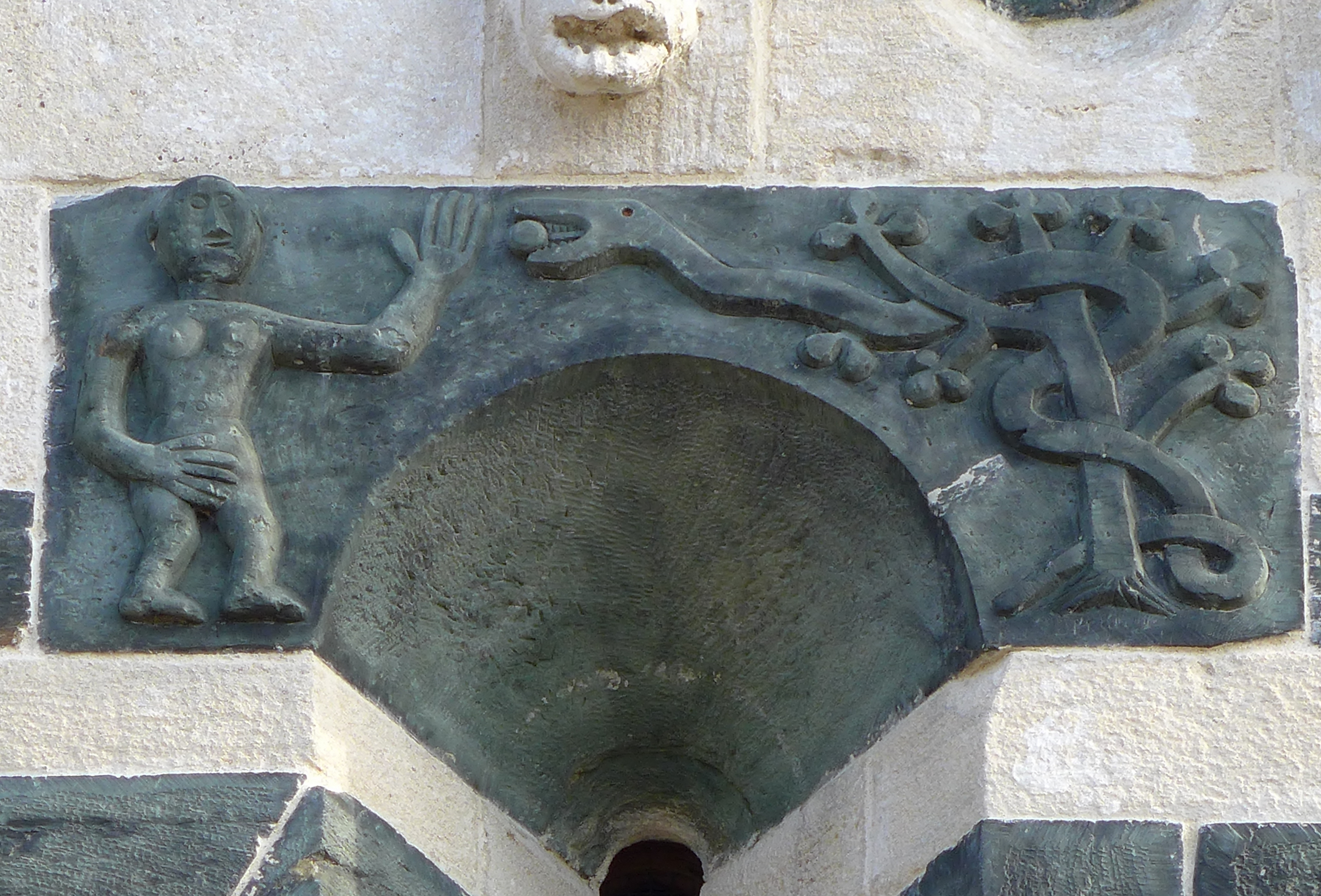 San Michele de Murato, Corse - Fall of man